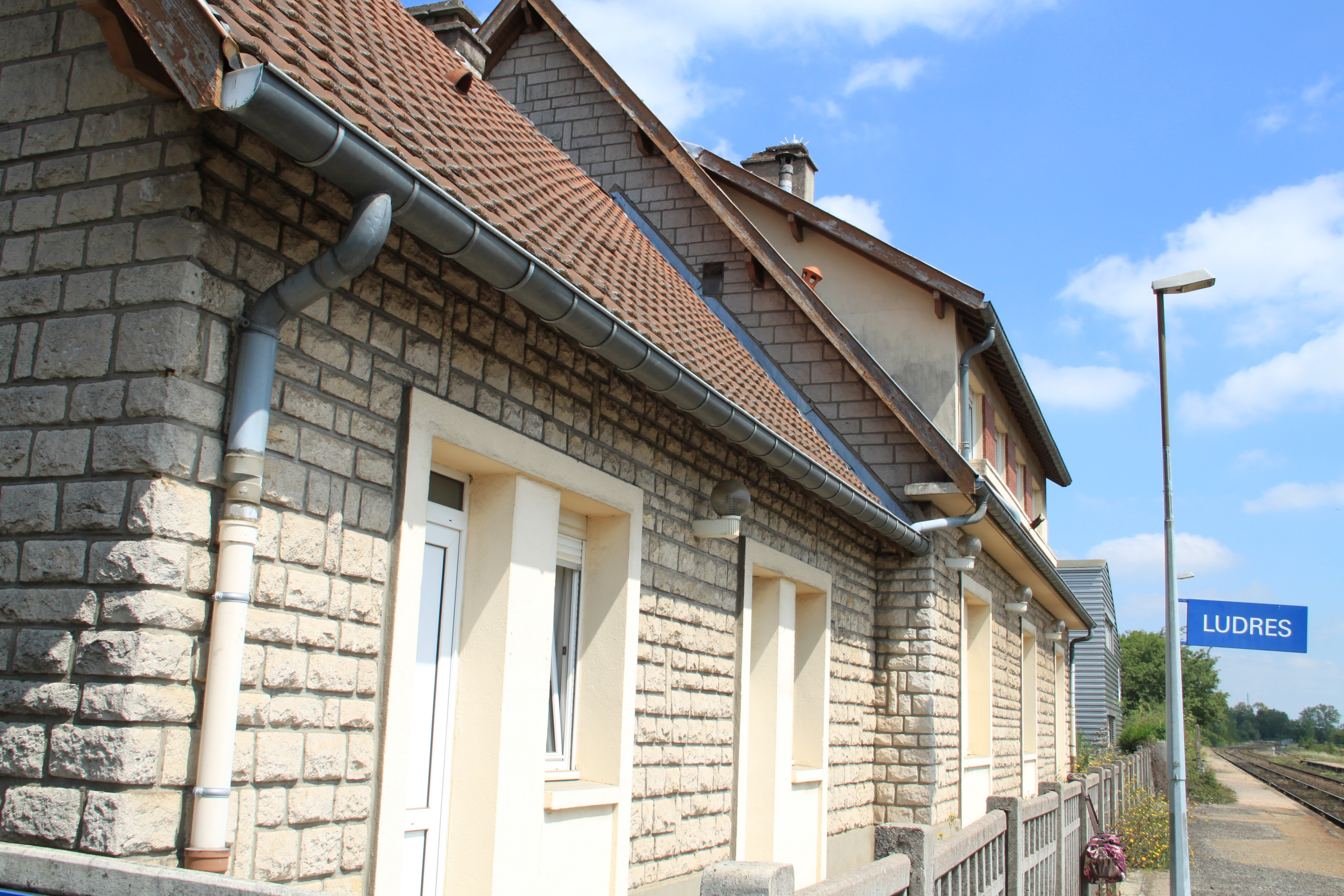 Ludres Train station